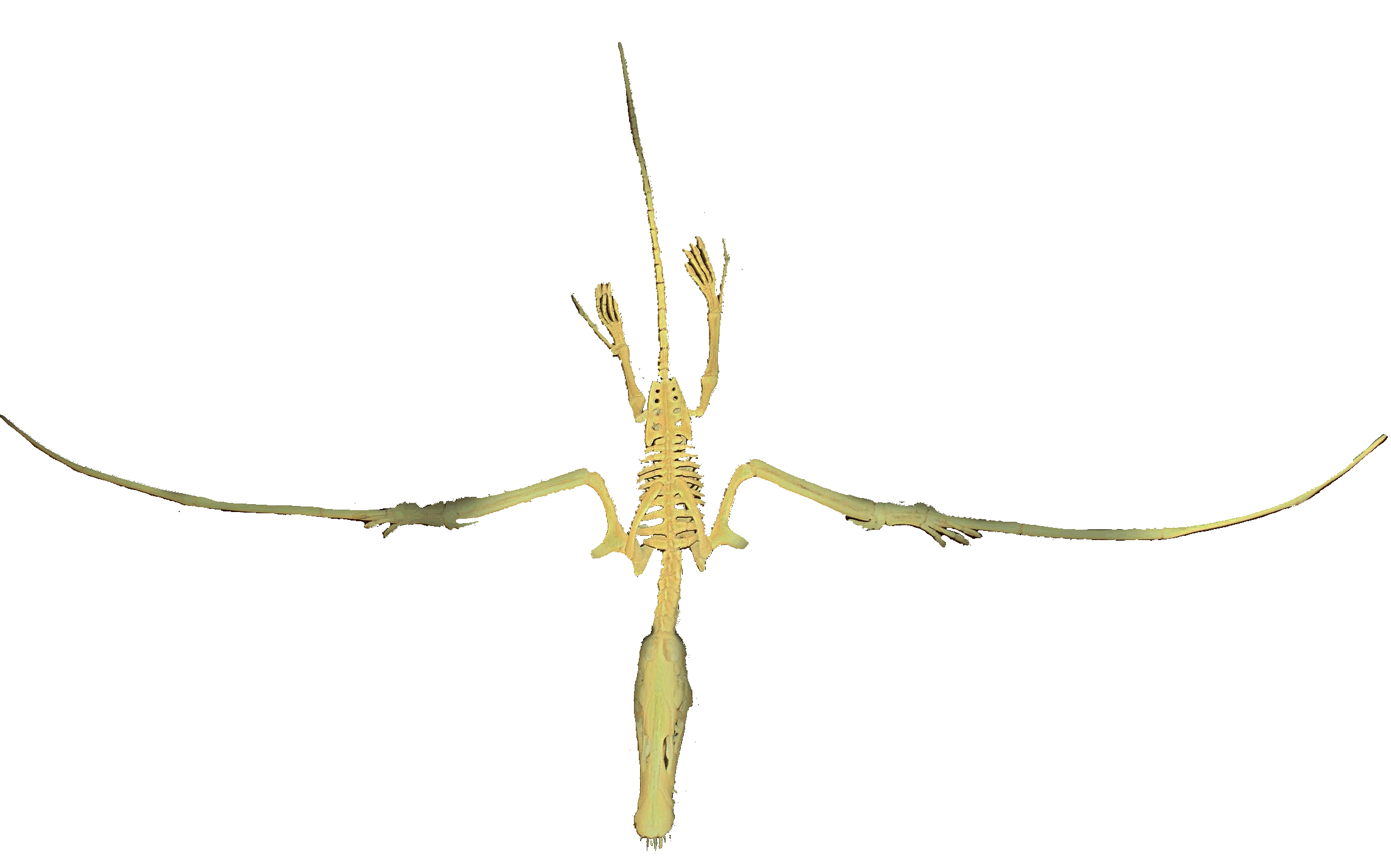 3D skeletal reconstruction of Dorygnathus in flight in the Rocky Mountain Dinosaur Resource Center, Woodland Park, Colorado